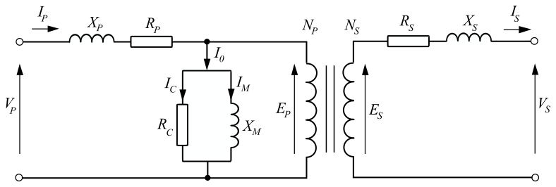 Equivalent circuit for transformer